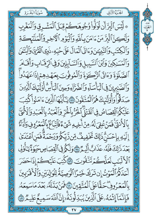 قرآن کریم -27